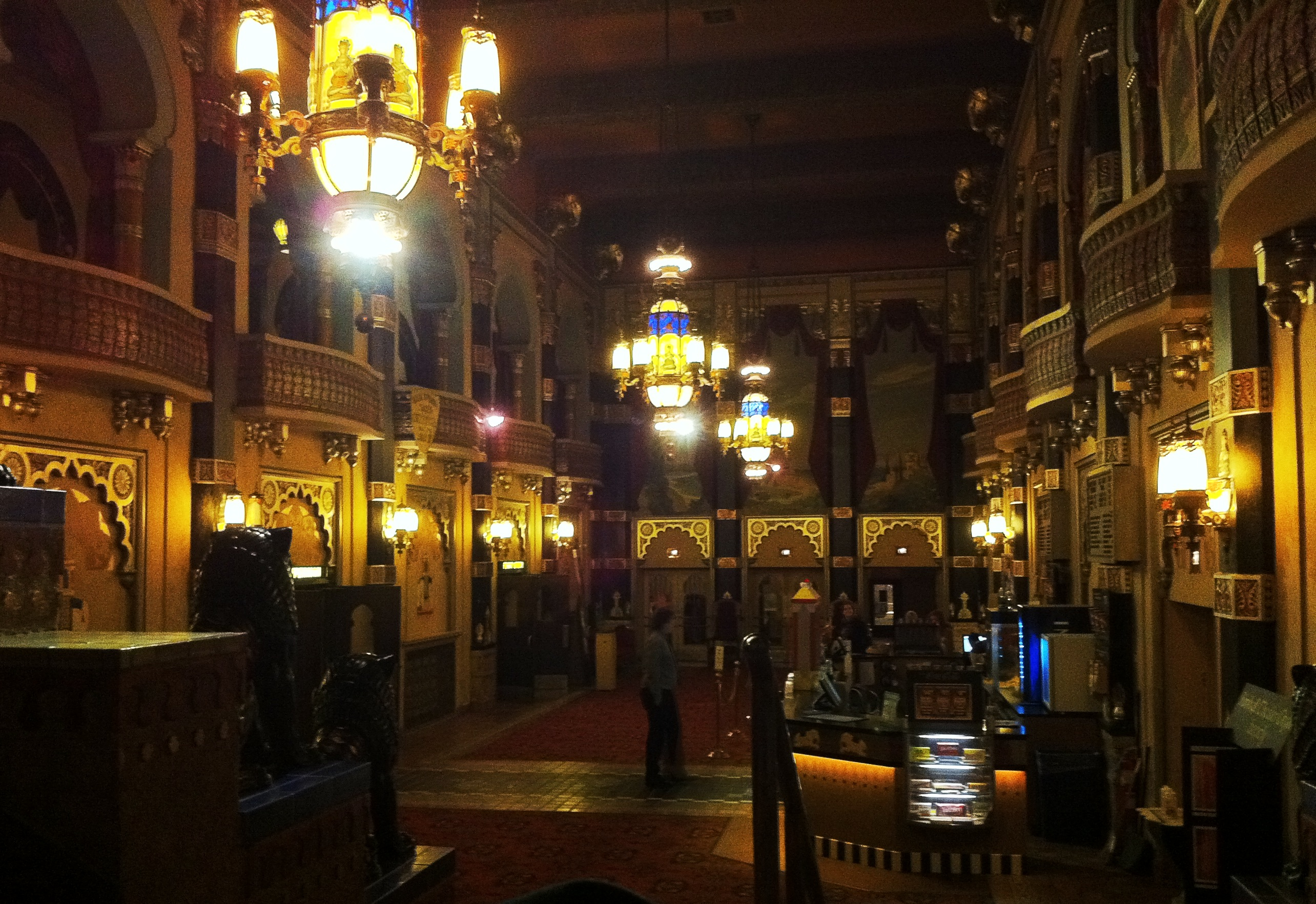 View of the lobby inside the Oriental Theatre in Milwaukee, Wisconsin, United States.